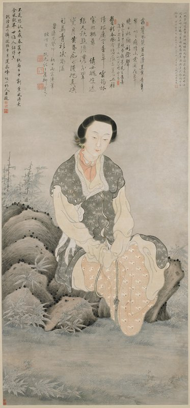 This painting depicts Su Xiaoxiao, a famous 5th-century singing girl.